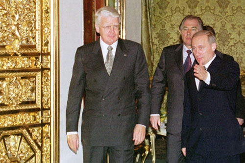 THE GRAND KREMLIN PALACE, MOSCOW. President Putin with President Olafur Ragnar Grimsson of Iceland.